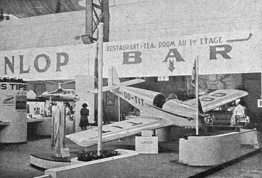 Tipsy Junior, OO-TIT (Letectví/Aviation, September 1947). The aircraft exhibited at the international aviation exhibition in Brussels, which took place in July 1947